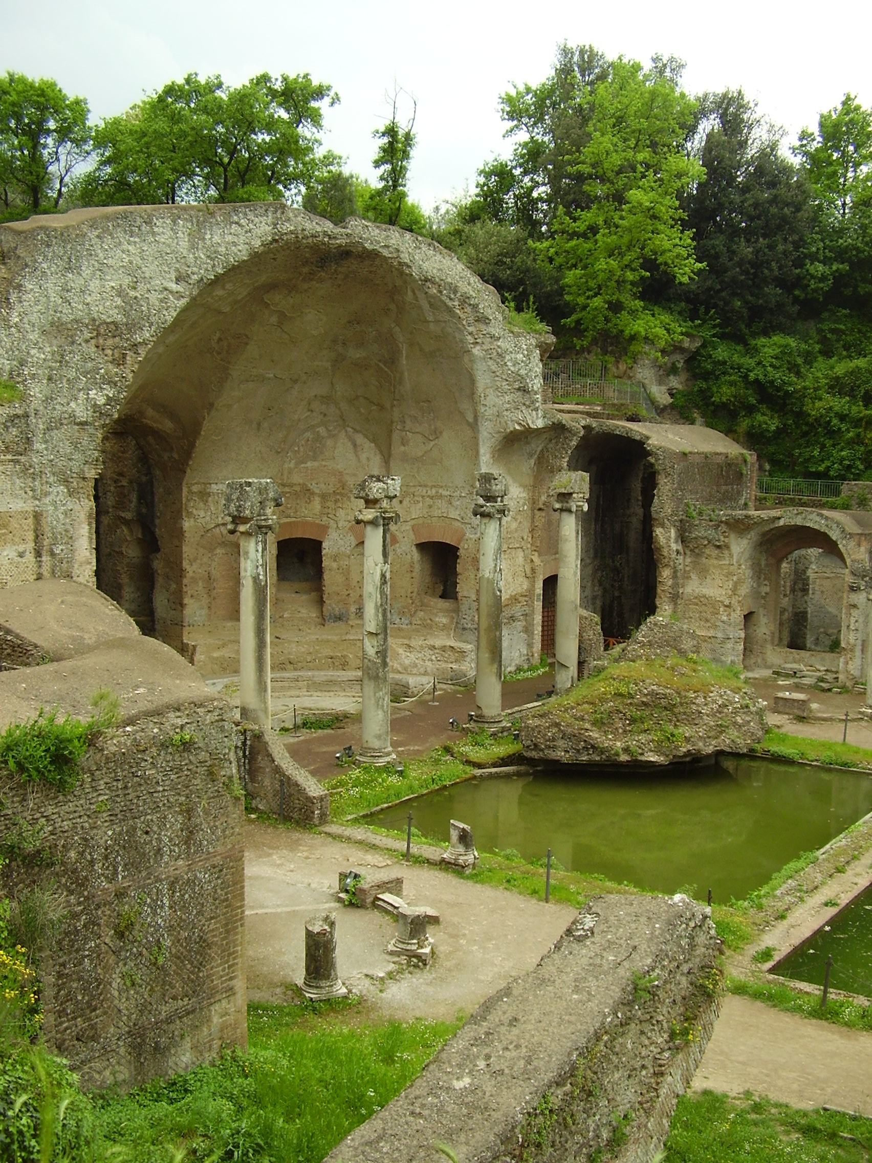 This photograph is my own work. It was taken in Italy during the spring of 2006.